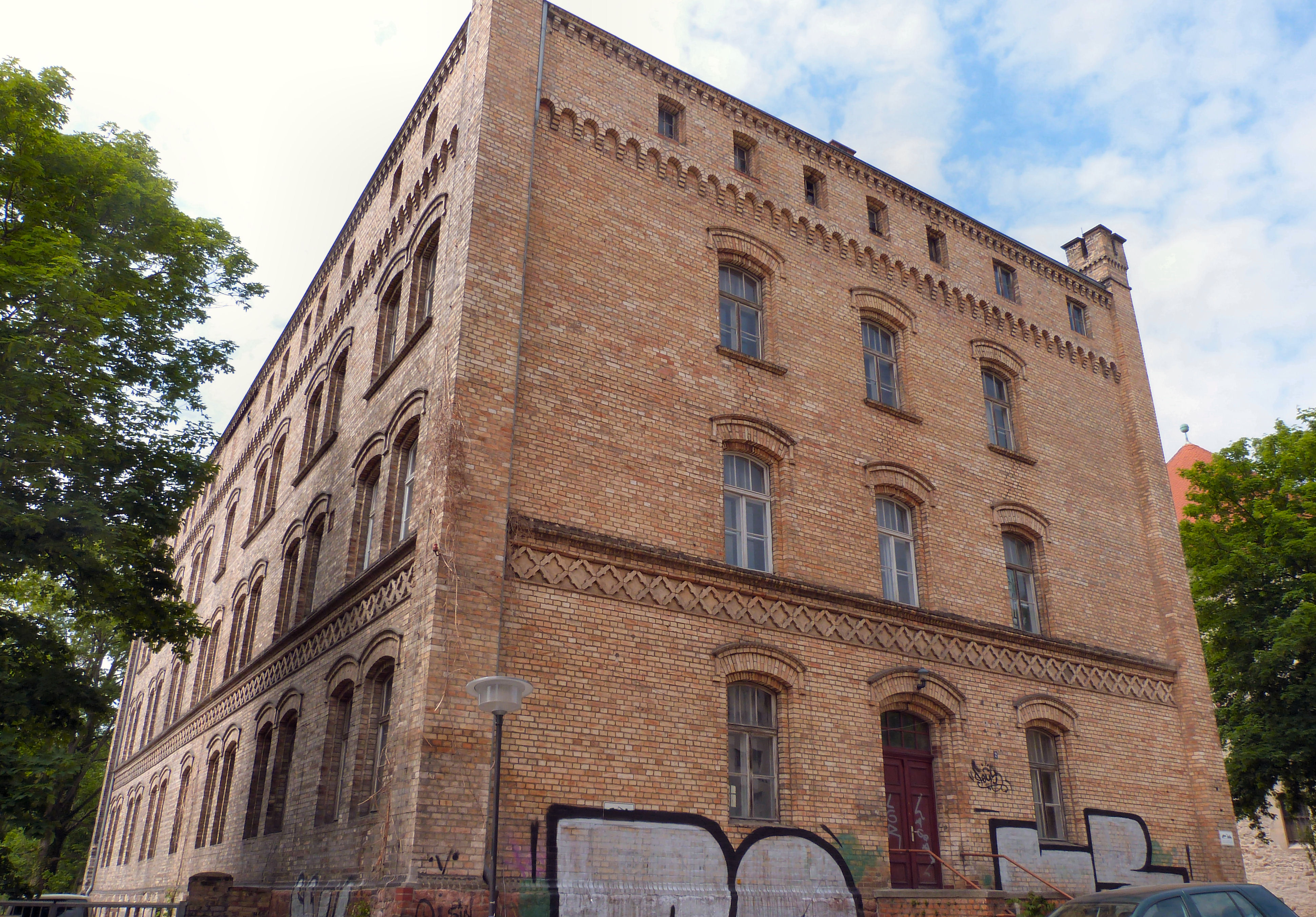 House No. 2 Schlossberg in Halle (Saale), former military hospital from 1865